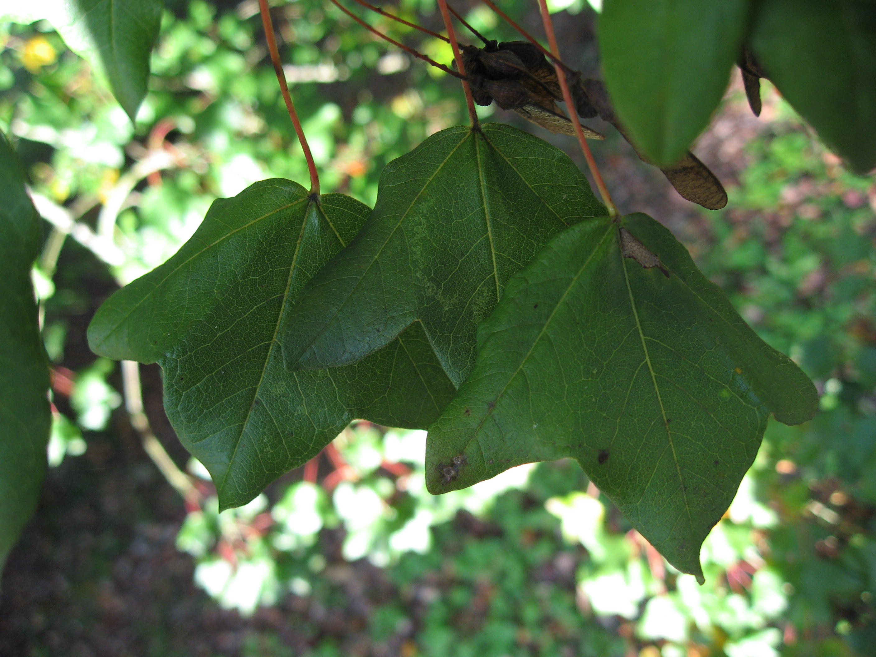 Acer monspessulanum in Arboretum de La Roche-Guyon Map: 49° 5' 56" N 1° 38' 23" E